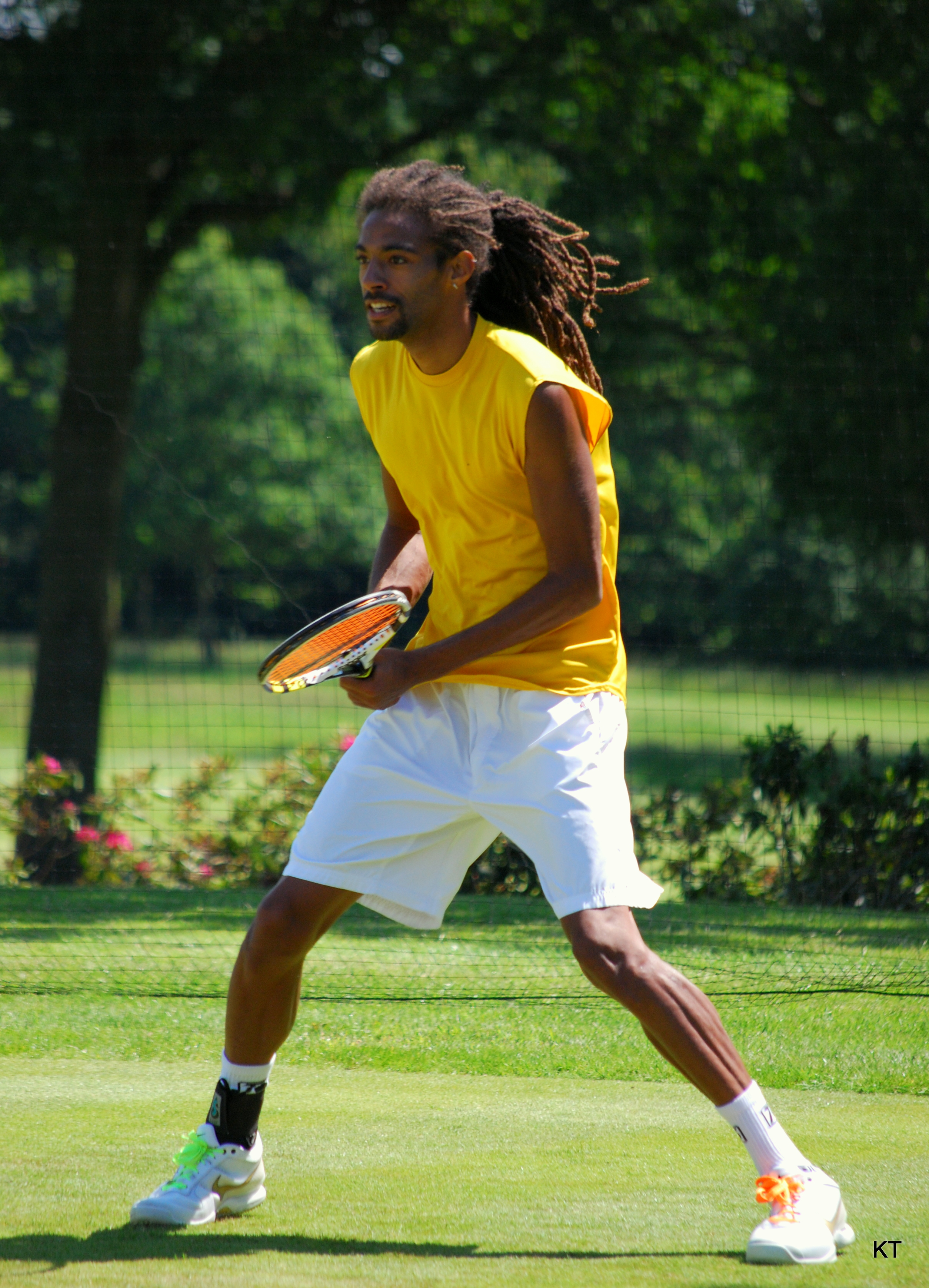 The Boodles, Stoke Park, 2010.